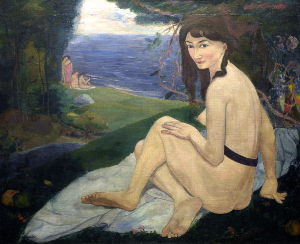 Nu de la comtesse d'Hauteroche, painting by the French artist Armand Seguin.